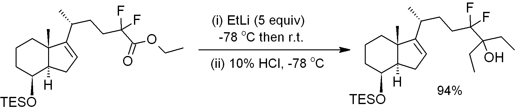 Reaction of ethyllithium with an ester to produce a tertiary alcohol. The corresponding Grignard reaction gave mainly reduction products. See Gary H. Posner, Jae Kyoo Lee, Qiang Wang, Sara Peleg, Martin Burke, Henry Brem, Patrick Dolan, and Thomas W. Kensler, J. Med. Chem., 1998, 41 (16), 3008–3014.